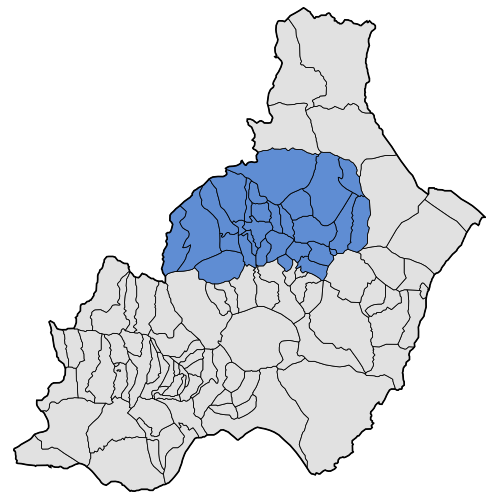 Map of Valle del Almanzora, region of province of Almería